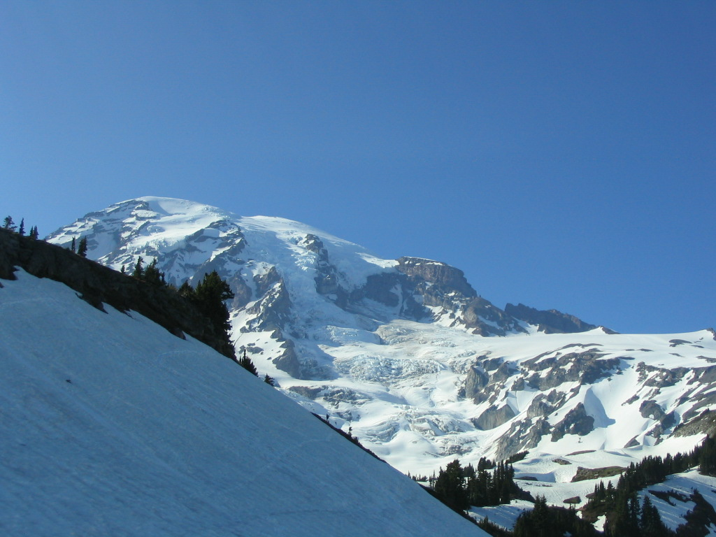 own photo, chewy3326